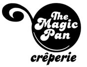 Logo for The Magic Pan creperie restaurant chain.